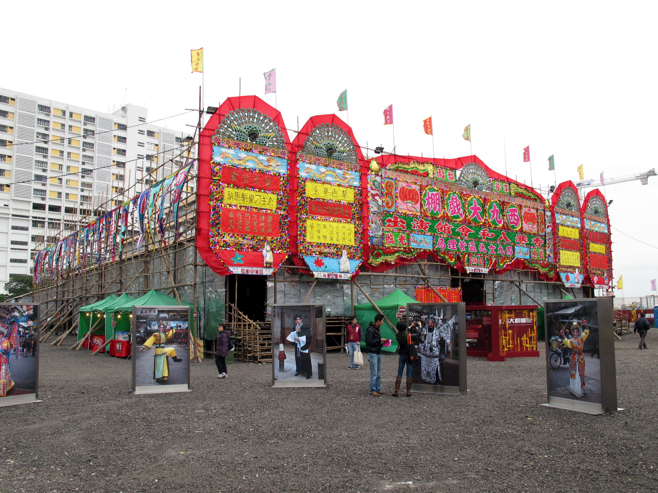 West Kowloon Bamboo Theatre 西九大戲棚